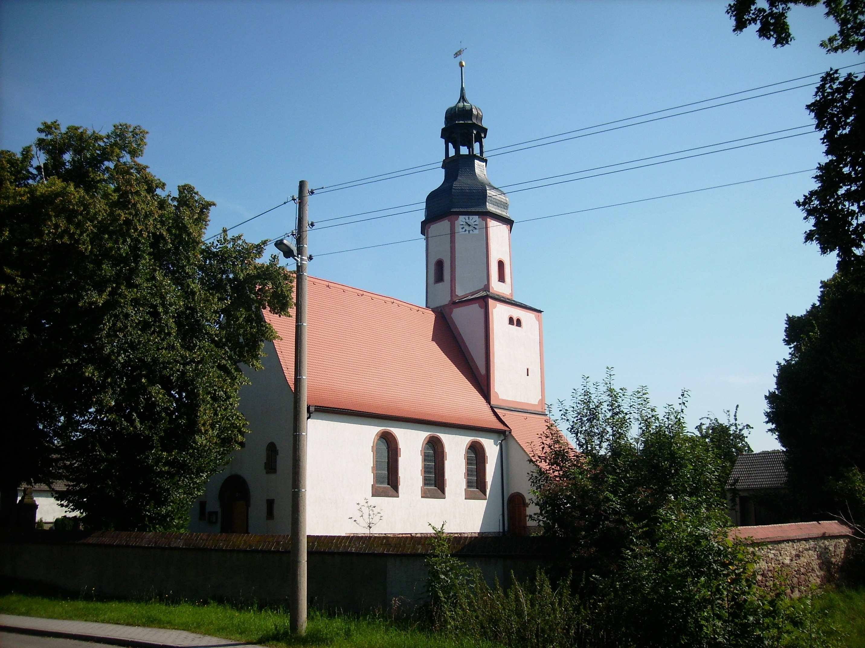 Church of the village of Ebersbach (Bad Lausick, Leipzig district, Saxony)